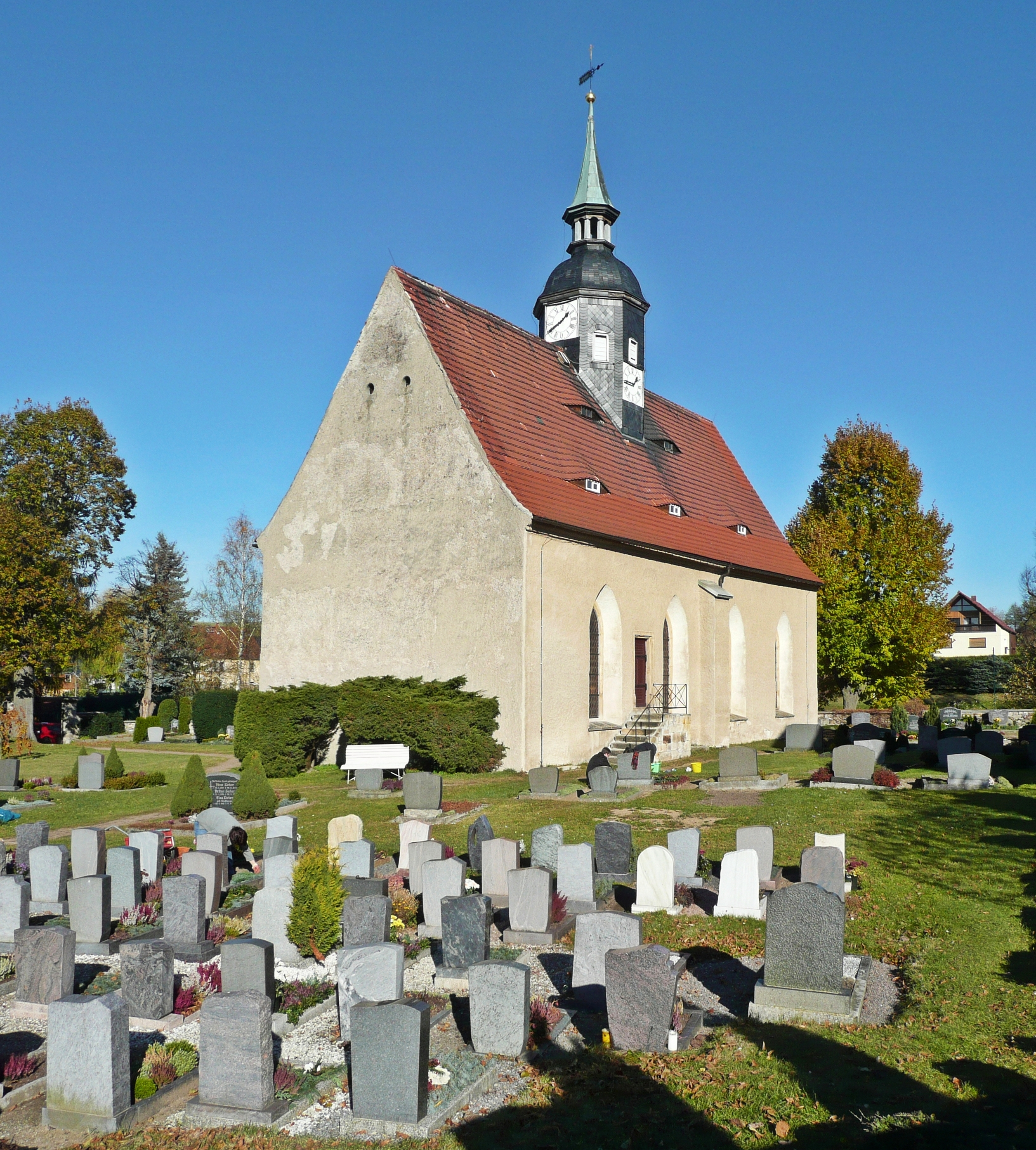 This image shows the evangelic church in Ruppendorf in Saxony.